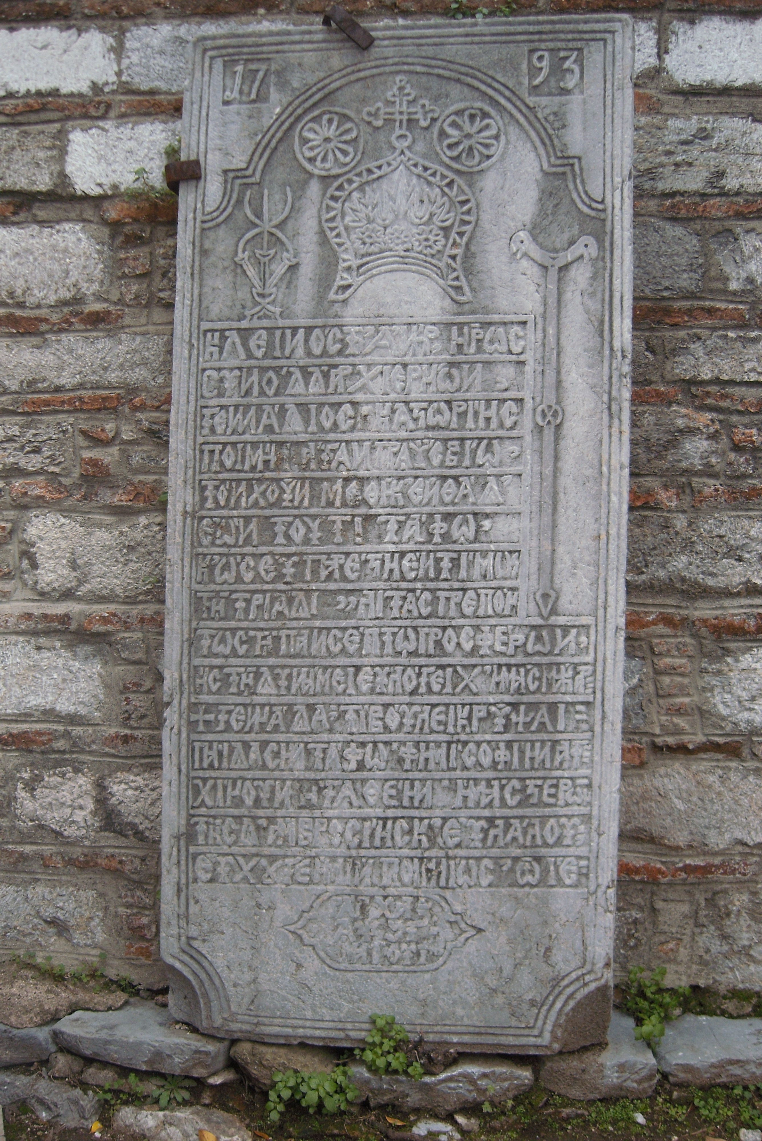 Gennadios Katsoris Stone in Kastoria Mitropoly yard